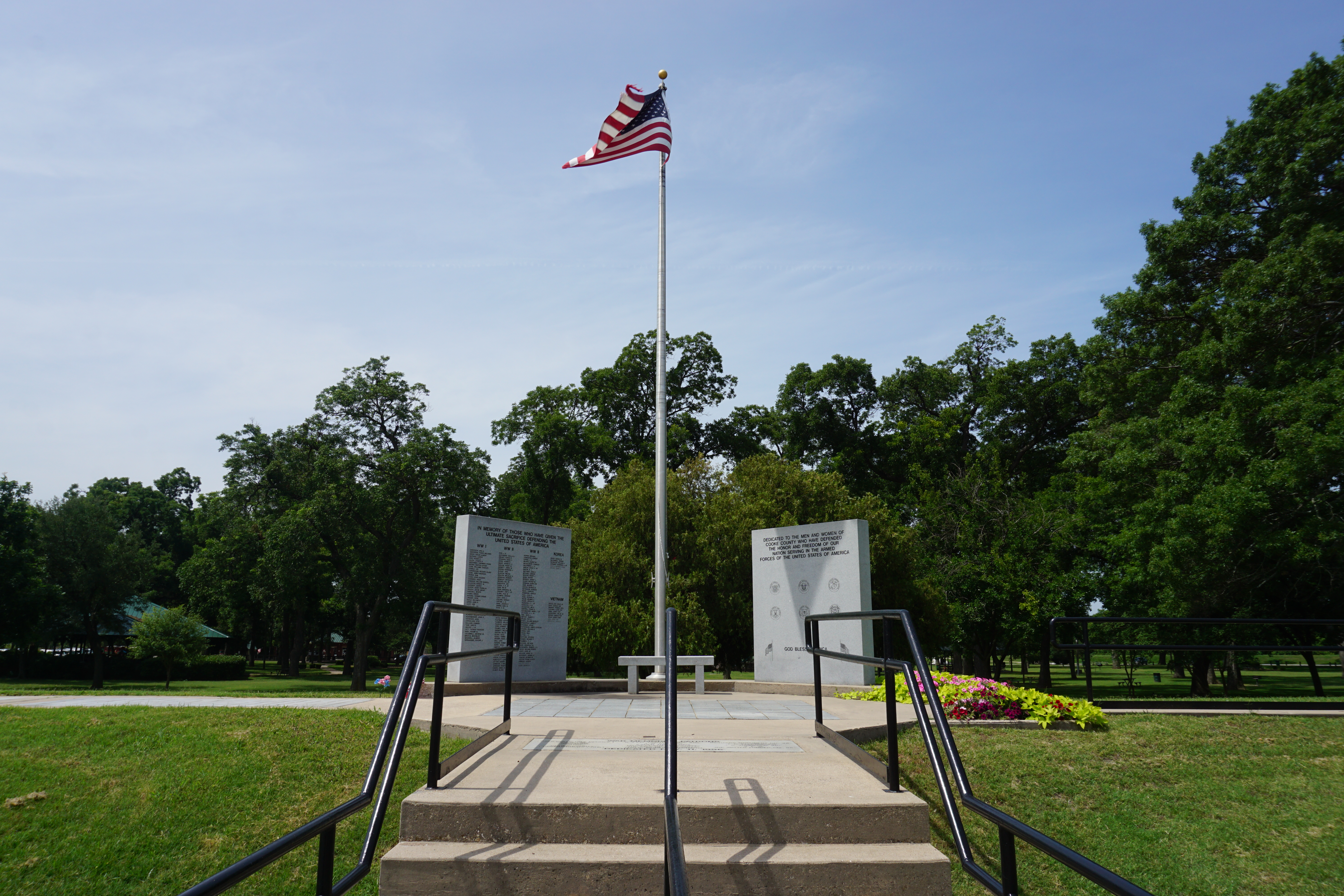 The Gainesville War Memorial at Leonard Park in Gainesville, Texas (United States).